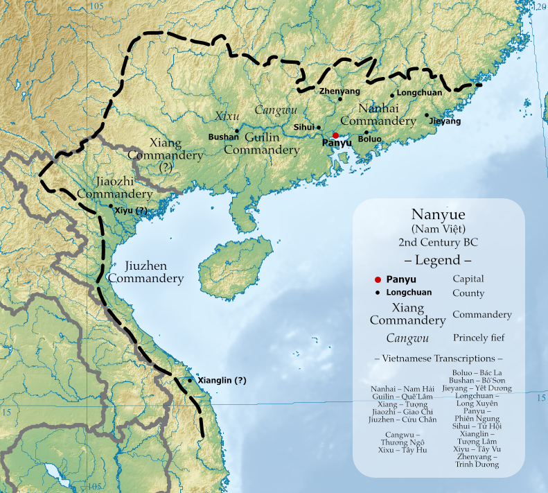 Map of Nanyue Kingdom at its greatest territorial extent, with commanderies and known counties shown. Place names, locations and borders in this file are based on The Historical Atlas of China (中国历史地图集) by Tan Qixiang, and Administrative Geography during Western Han Dynasty (西汉政区地理) by Zhou Zhenhe. Base map is East Asia topographic map.png.